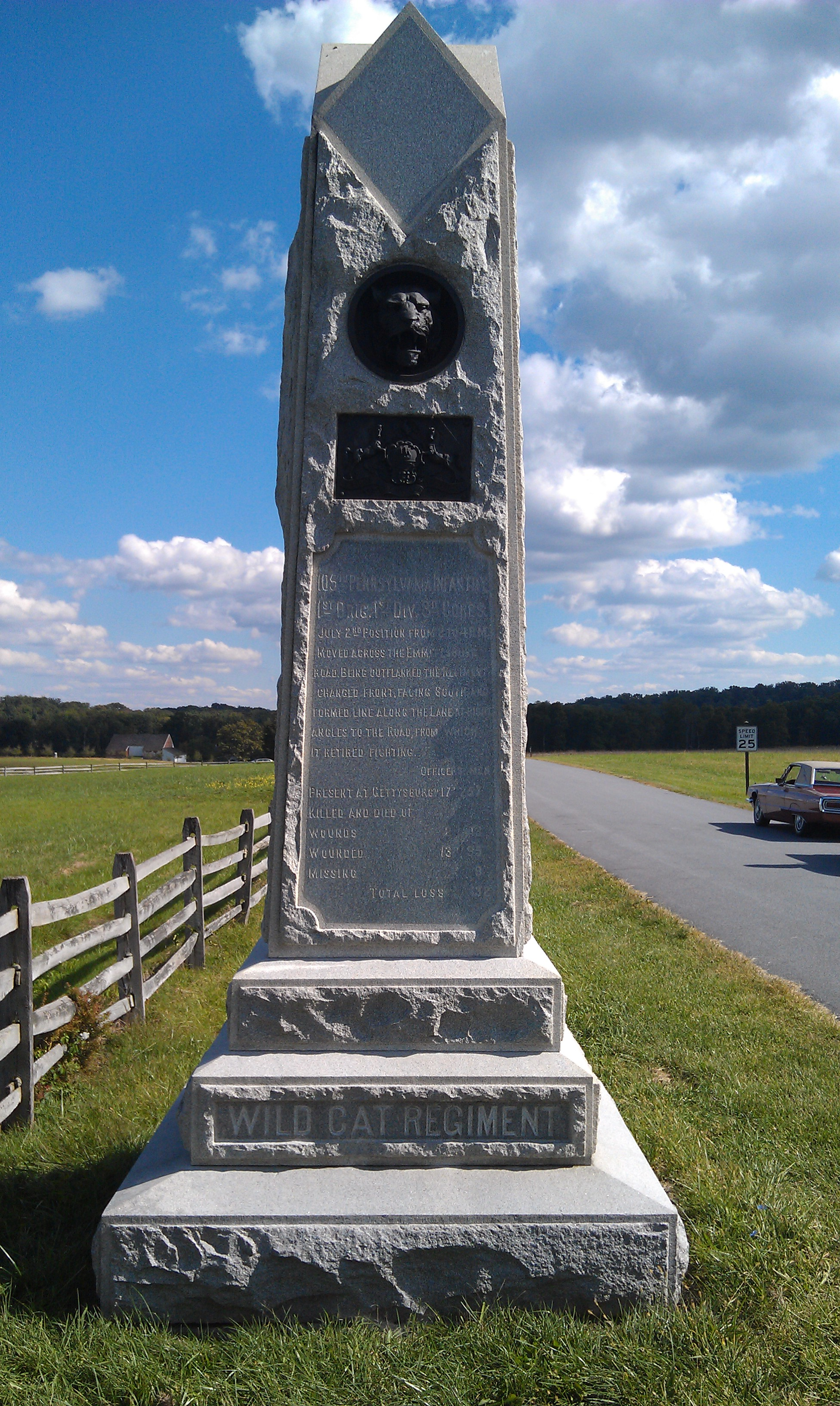 PA 105th Wildcats Regiment Battle of Gettysburg Memorial. Located on the corner of the Peach Orchard in Gettysburg, PA.